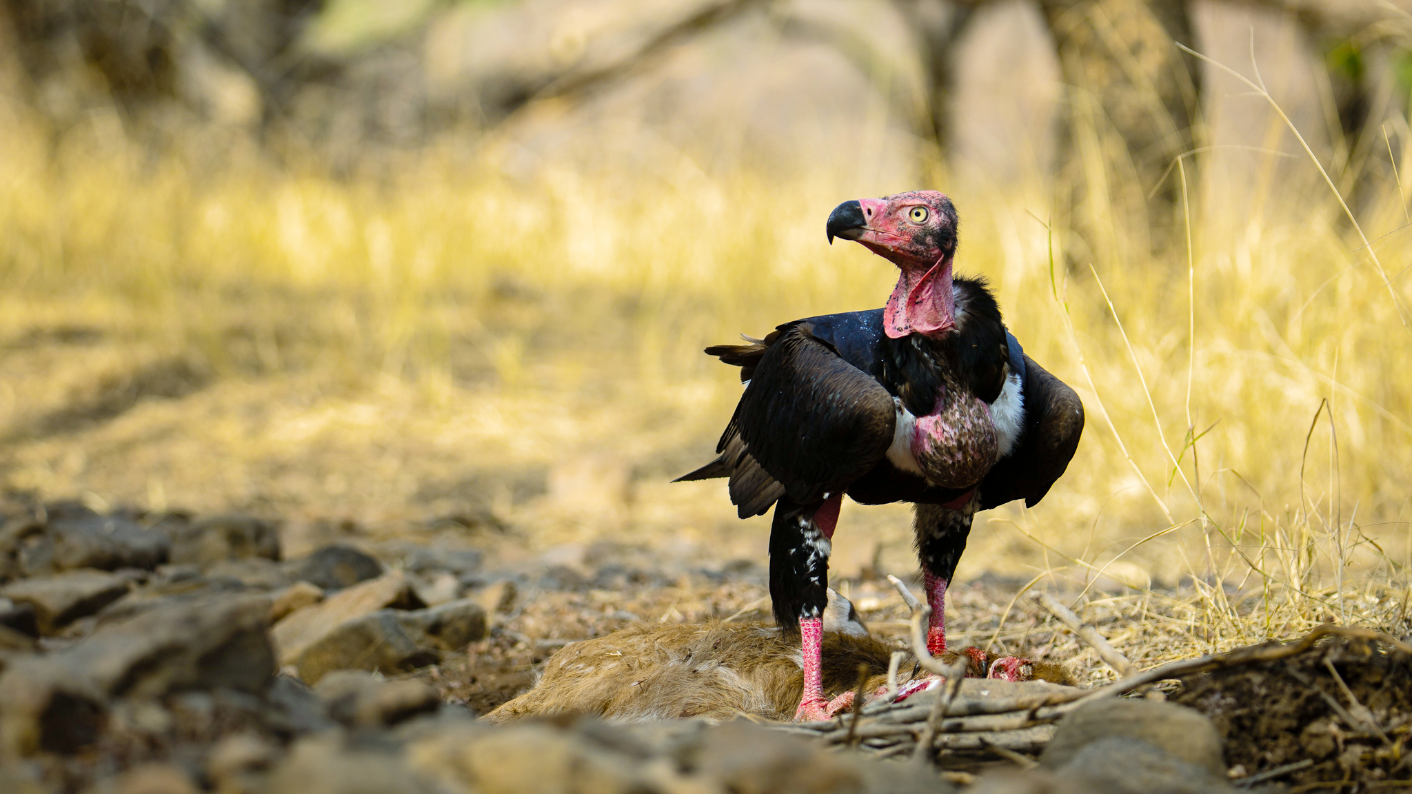 Individual at Ranthambhore National Park